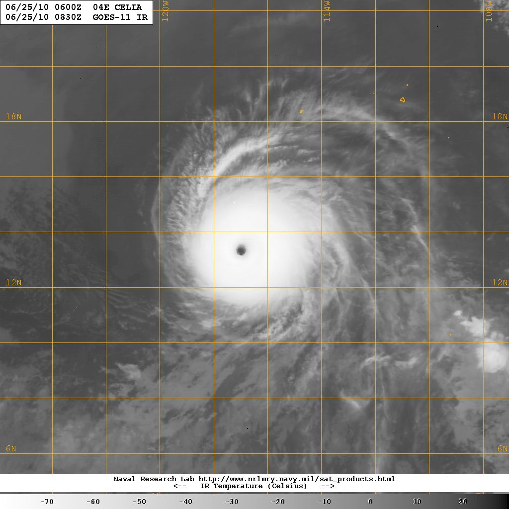 Infrared satellite image of Hurricane Celia as a Category 5 hurricane on June 25, 2010.